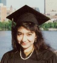 Aafia Siddiqui a cognitive neuroscientist from Pakistan. The photo was taken and released into the public domain by her brother Muhammad Siddiqui.